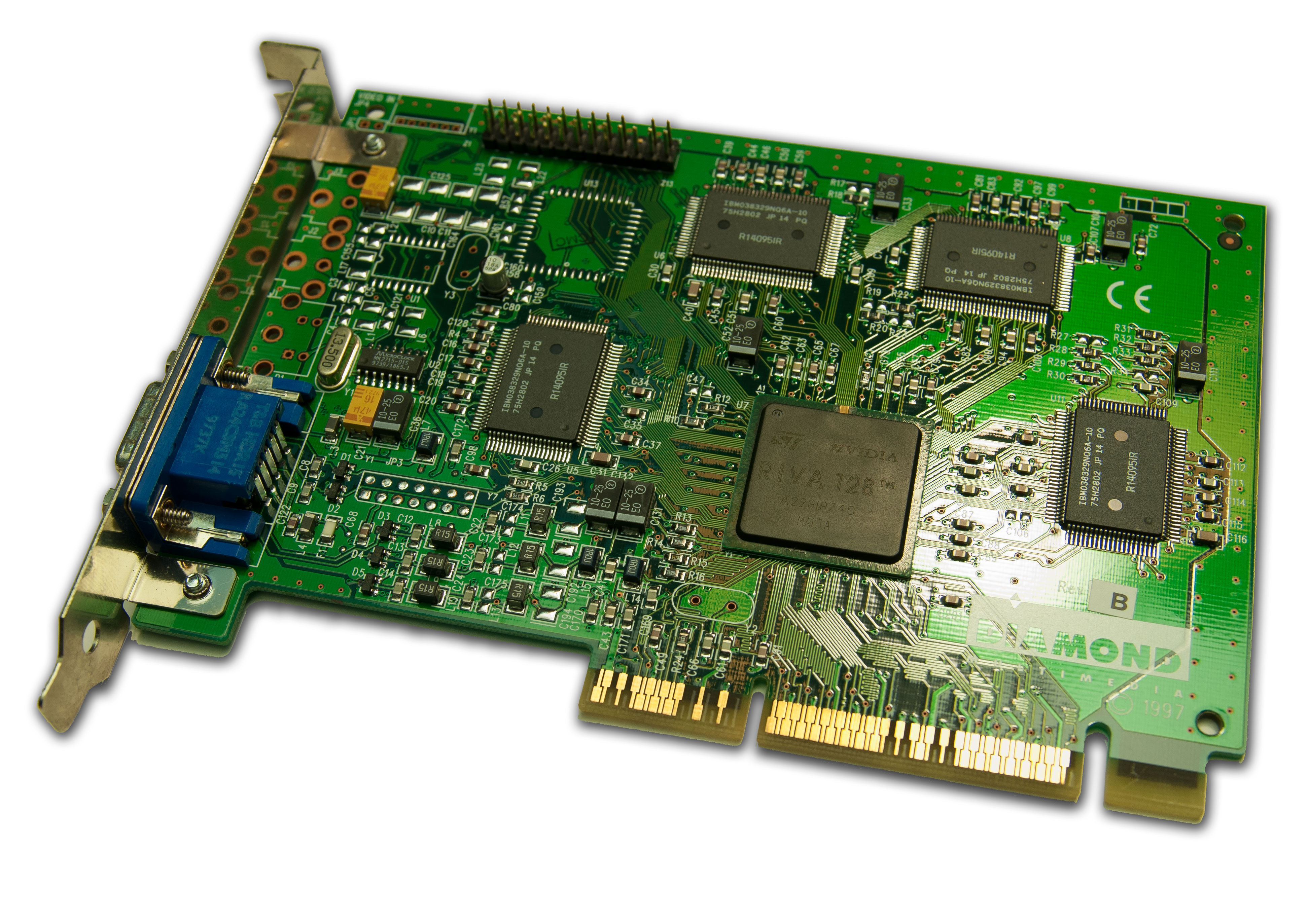 Diamond Viper 330 with Nvidia (RIVA 128) GPU with 4 MB of RAM. From 1997. This shot from 2013.